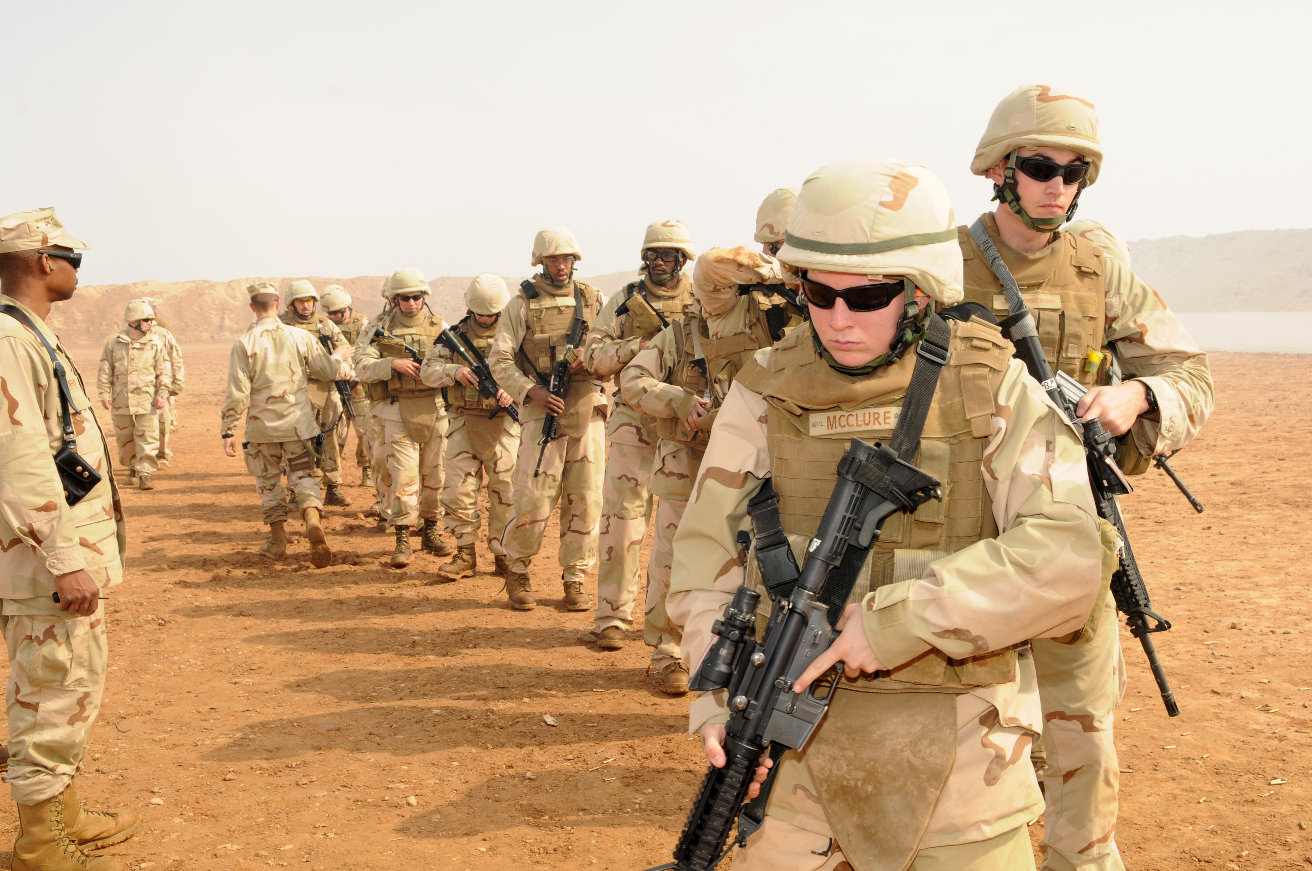 Marine Corps Gunnery Sgt. David E. Williams, assigned to Naval Mobile Construction Battalion 11, verifies that weapons are clear and safe before Gunner's Mate Seaman Omar Renfro, assigned to Naval Mobile Construction Battalion 11, checks the shot grouping on a target for a shipmate at a water-logged firing range on Camp Leatherneck while Seabees battlesight zero their weapons. Homeported in Gulfport, Miss., NMCB-11 is deployed to Afghanistan to conduct general, mobility, survivability engineering operations, defensive operations, Afghan National Army partnering and detachment of units in combined/joint operations area - Afghanistan in order to enable the neutralization of the insurgency and support improved governance and stability operations. Unit: Naval Mobile Construction Battalion 11 DVIDS Tags: battalion; firing range; mississippi; seabee; nmcb; Navy; gulfport; afghanistan; leatherneck; bzo; nmcb-11; helmand; mobile construction battalion